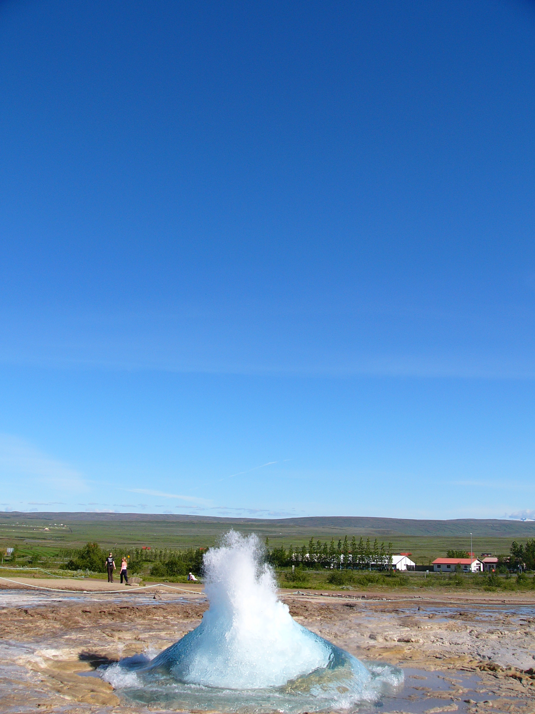 Simon Cole Strokkur, Iceland 24/07/2005